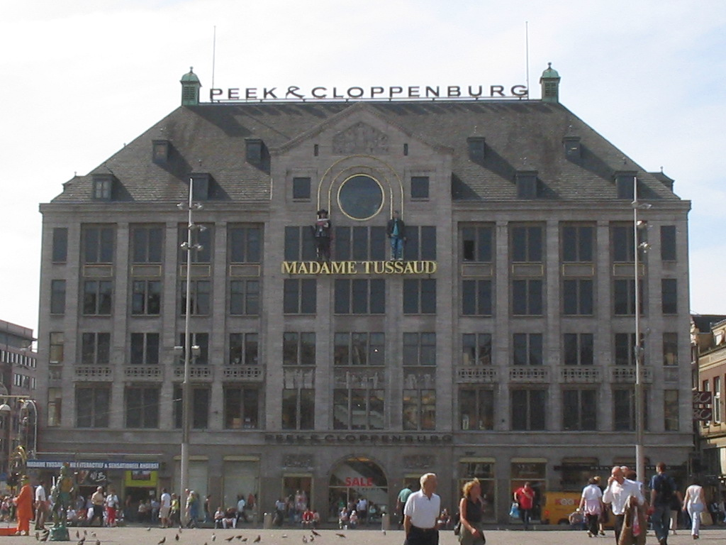 Madam Tussaud building (Amsterdam, Netherlands), july 2005